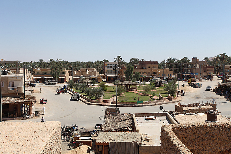 Market place, town of Siwa, Siwa, Egypt